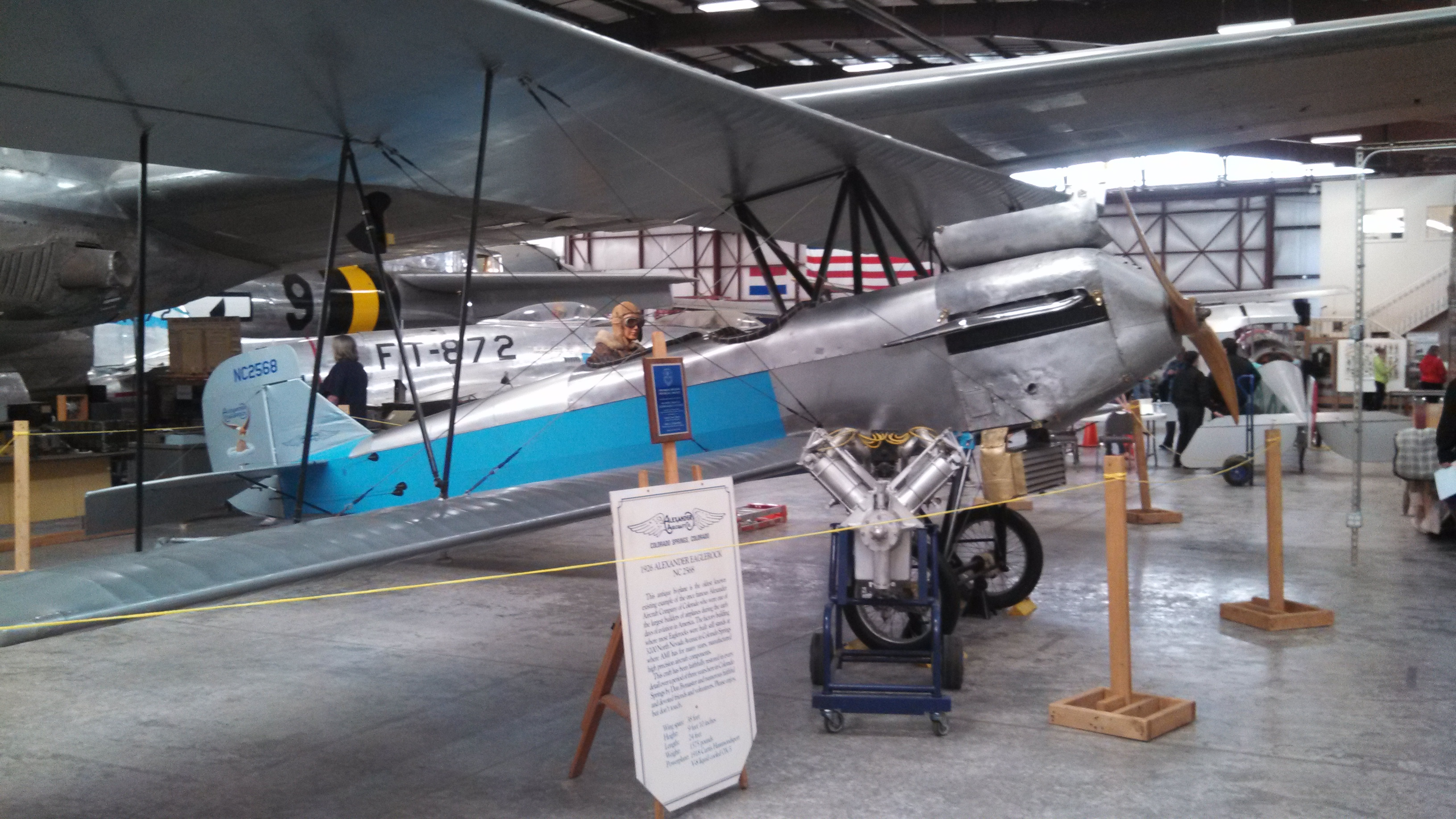 The Alexander Eaglerock 26 Longwing, owned by Colorado Aviation Historical Society transferred from Wings Over the Rockies Air & Space Museum, Denver to the Pueblo Weisbrod Aircraft Museum, Pueblo, CO, on 20 Sep 2013, long-term loan, and reassembled 15 Oct 2013. This photo is a replacement jpg. Other information a replacement photo of existing one